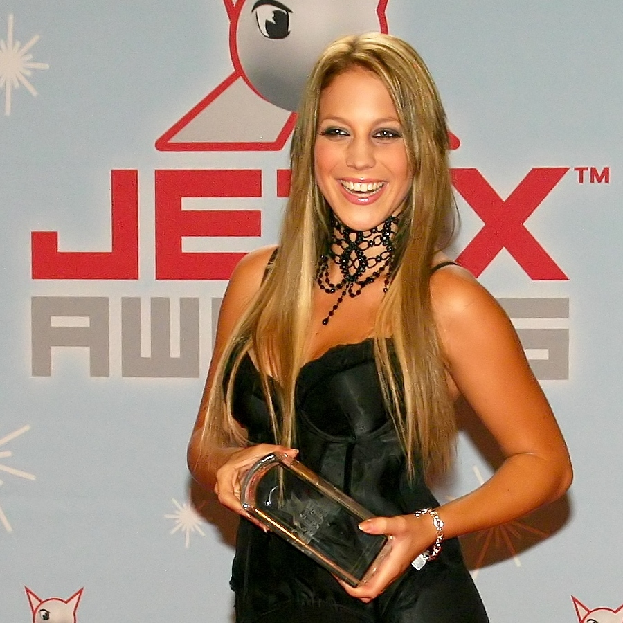 LaFee during the conferment of the JETIX Award at the youth fair "YOU", Berlin